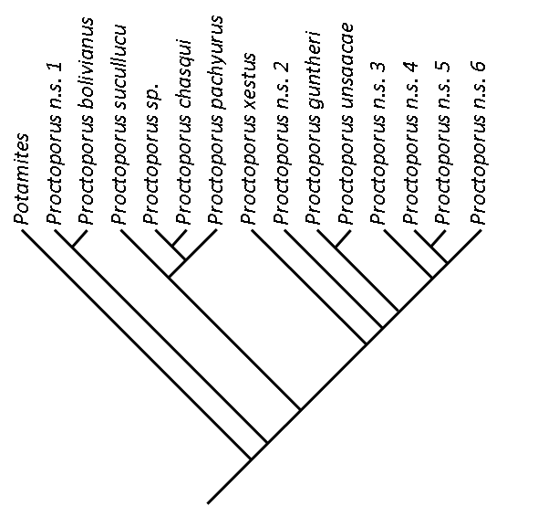 Cladogram depicting the relationships between the species of the genus Proctoporus and its nearest relatives of the genus Potamites. Proctoporus occurs in the forrest and grassland girdle on the upper rim of Amazonia at the eastern edge of the Andes between central Peru in the North and Central Bolivia in the South. This cladogram is based on the differences in DNA. Based on Goicoechea, N.; Padial, J.M.; Chaparro, J.C.; Castrovejo-Fisher, S.; De la Riva, I. (2012). "Molecular phylogenetics, species diversity, and biogeography of the Andean lizards of the genus Proctoporus (Squamata: Gymnophthalmidae)". Molecular Phylogenetics and Evolution 65: 953–964.